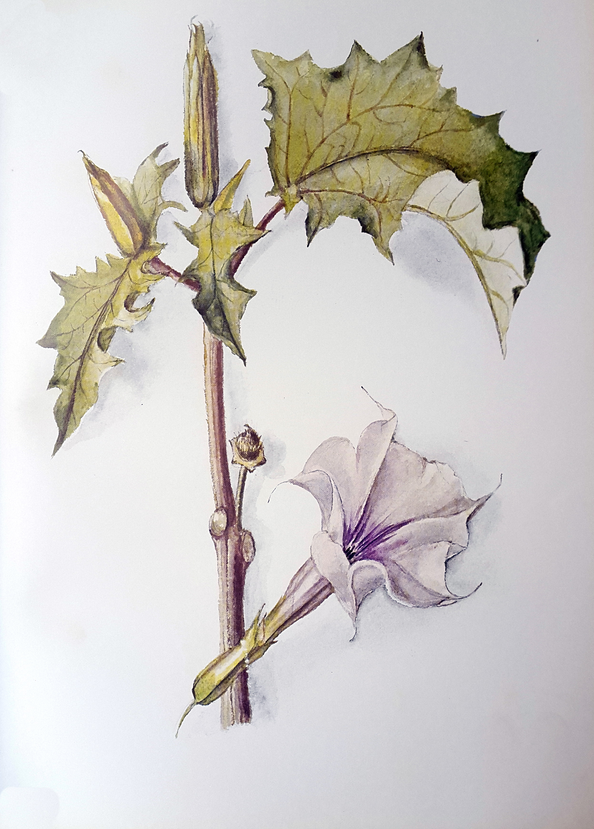 Datura stramonium L. - botanical plate by Katharine Saunders (1824-1901)